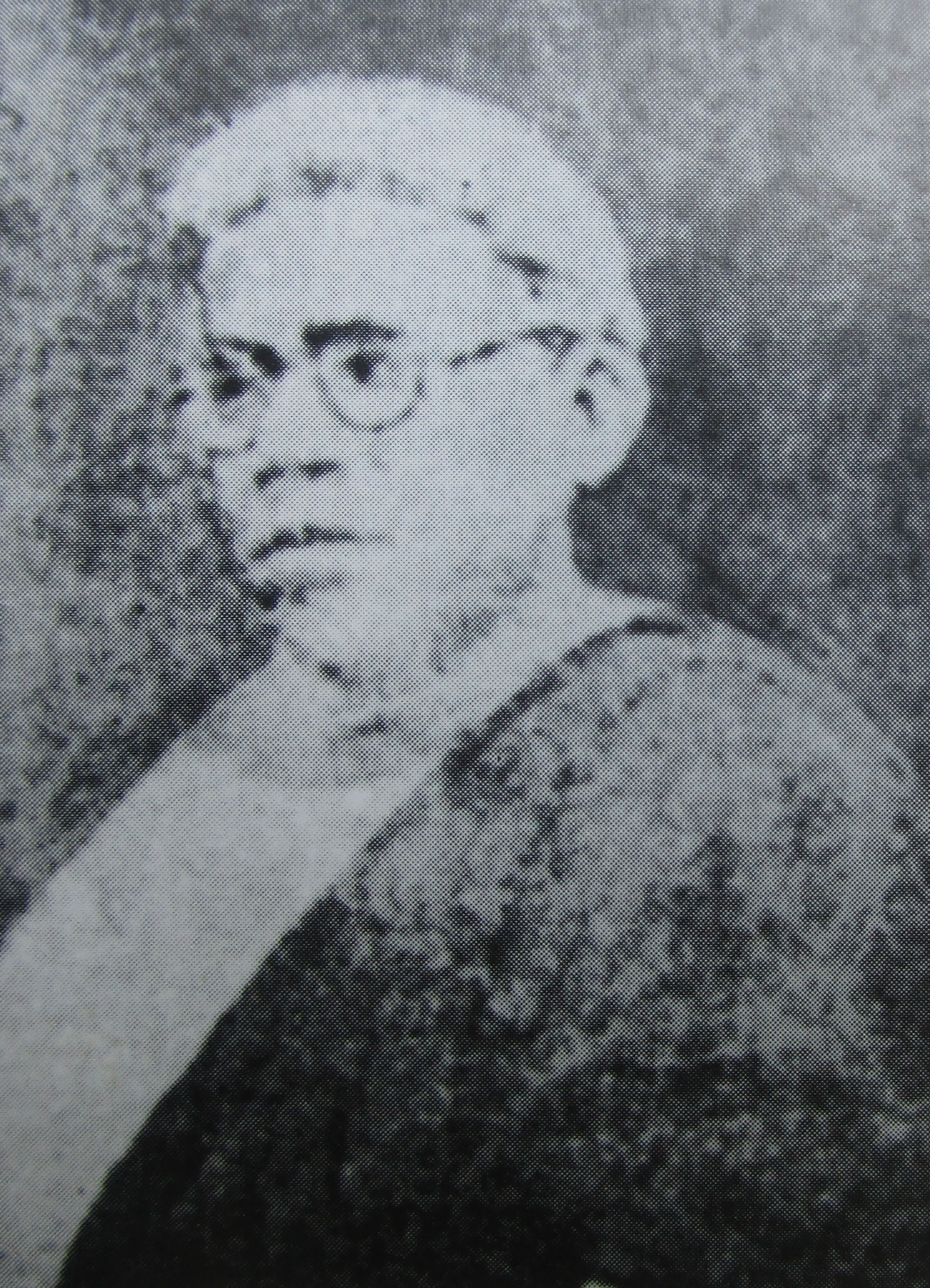 Hemchandra Kanungo, The Indian independence activist.